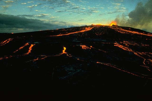 View of Mauna Ulu with pahoehoe lava flows, Kilauea, Hawaii, United States